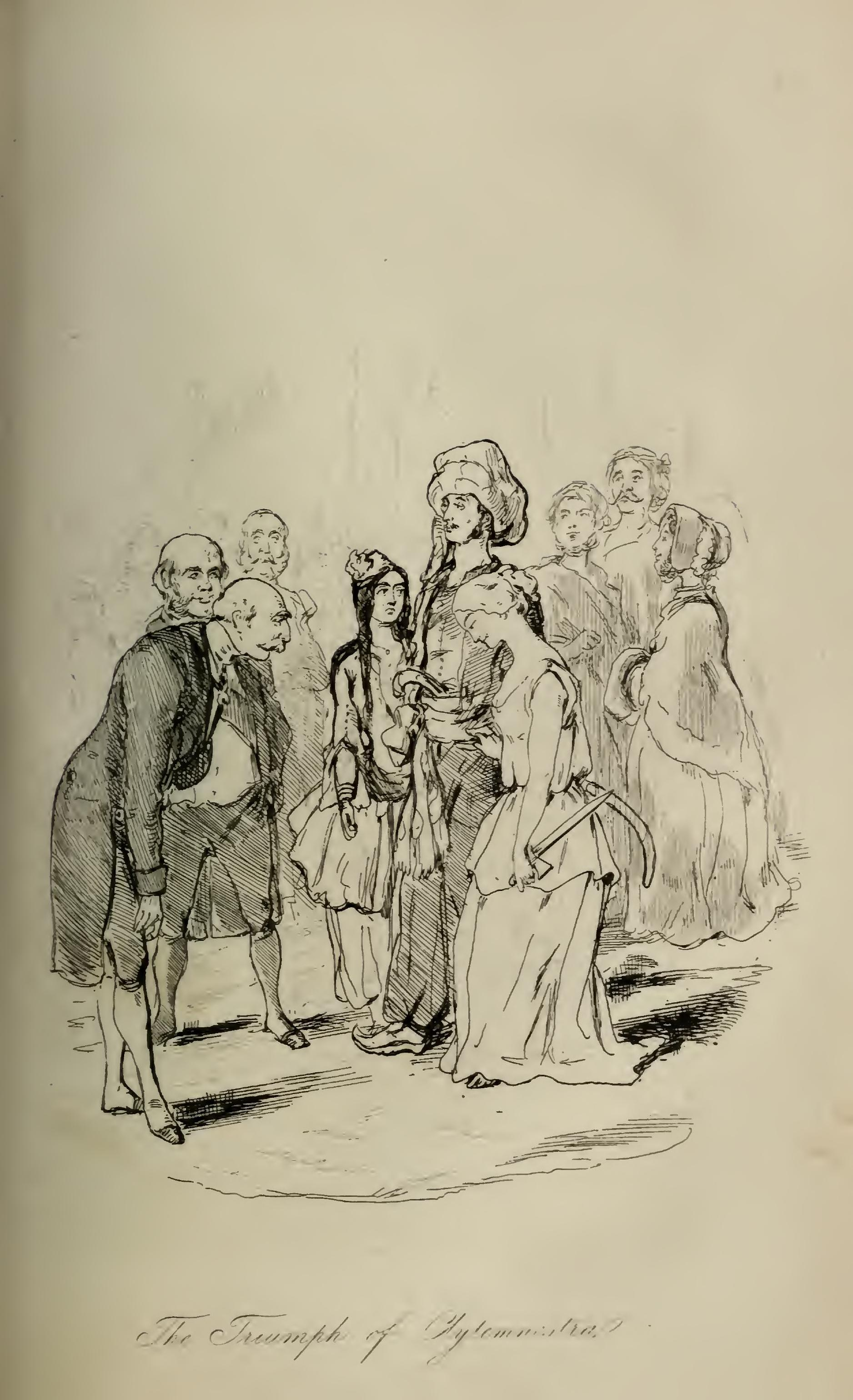 The Triumph of ClytemnestraBecky Sharp greeting the upper class after her charades performance.